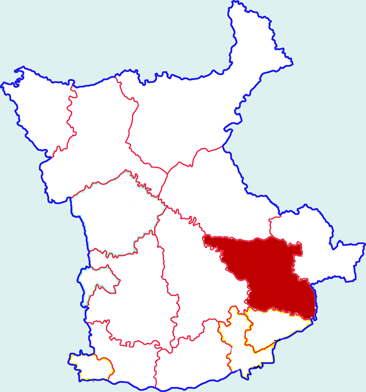 Location of Jingyang county in Xianyang city, China